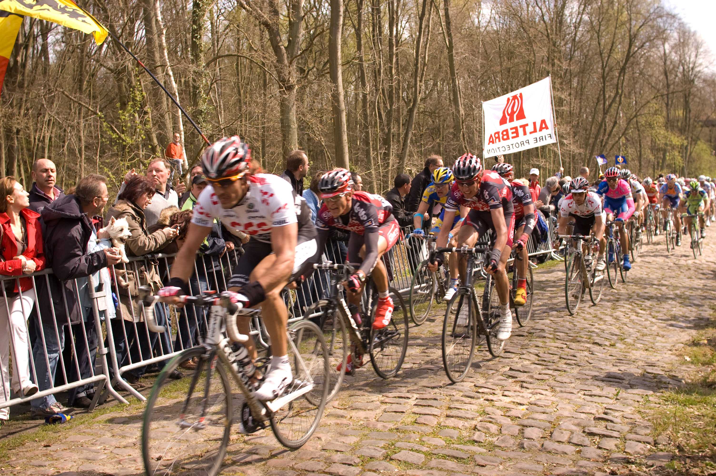 The peloton through Trouée d'Arenberg, Paris-Roubaix 2008 (1. Tom Boonen 2. Fabian Cancellara 3. Alessandro Ballan).